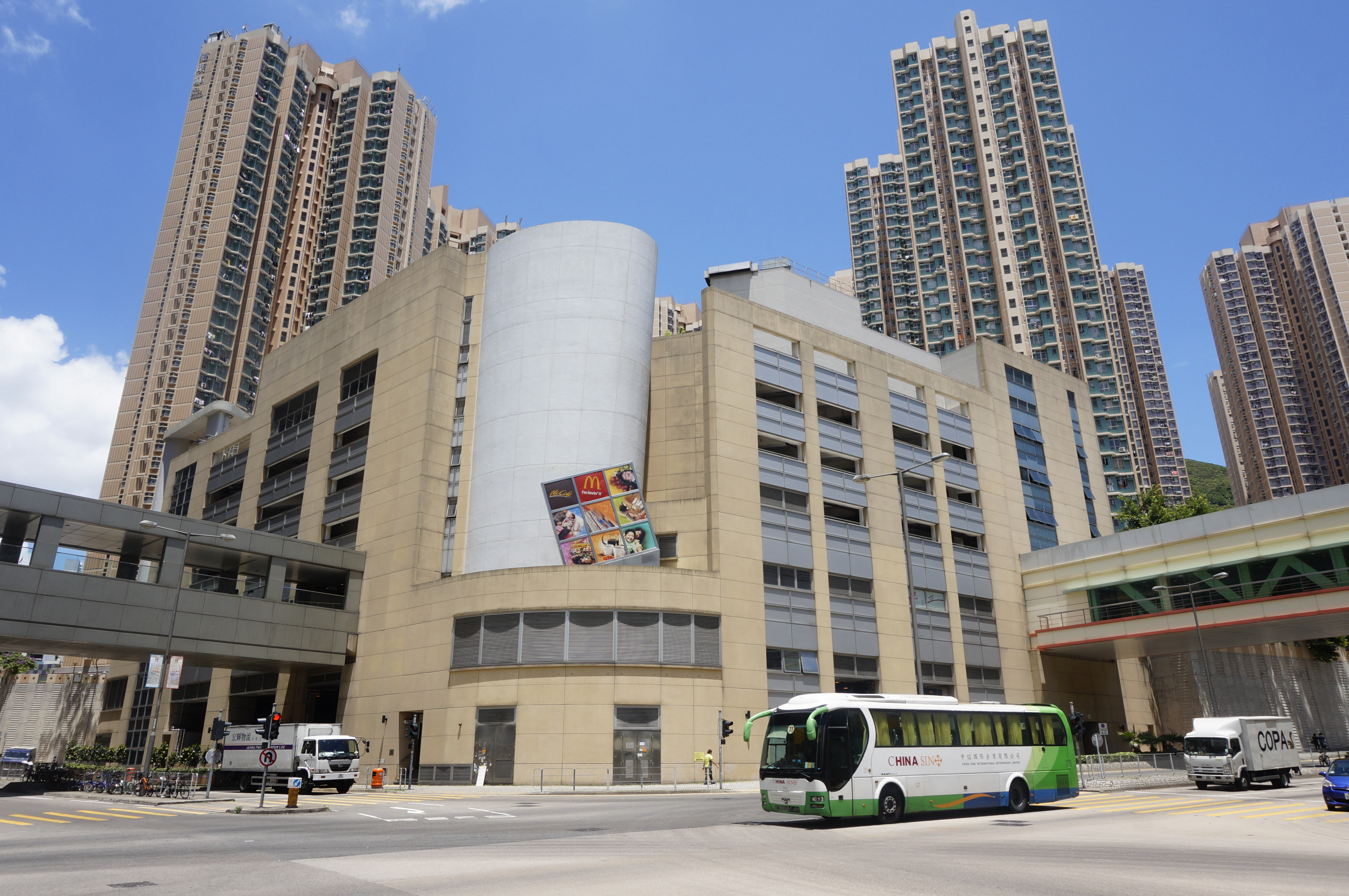 Choi Ming Shopping Centre